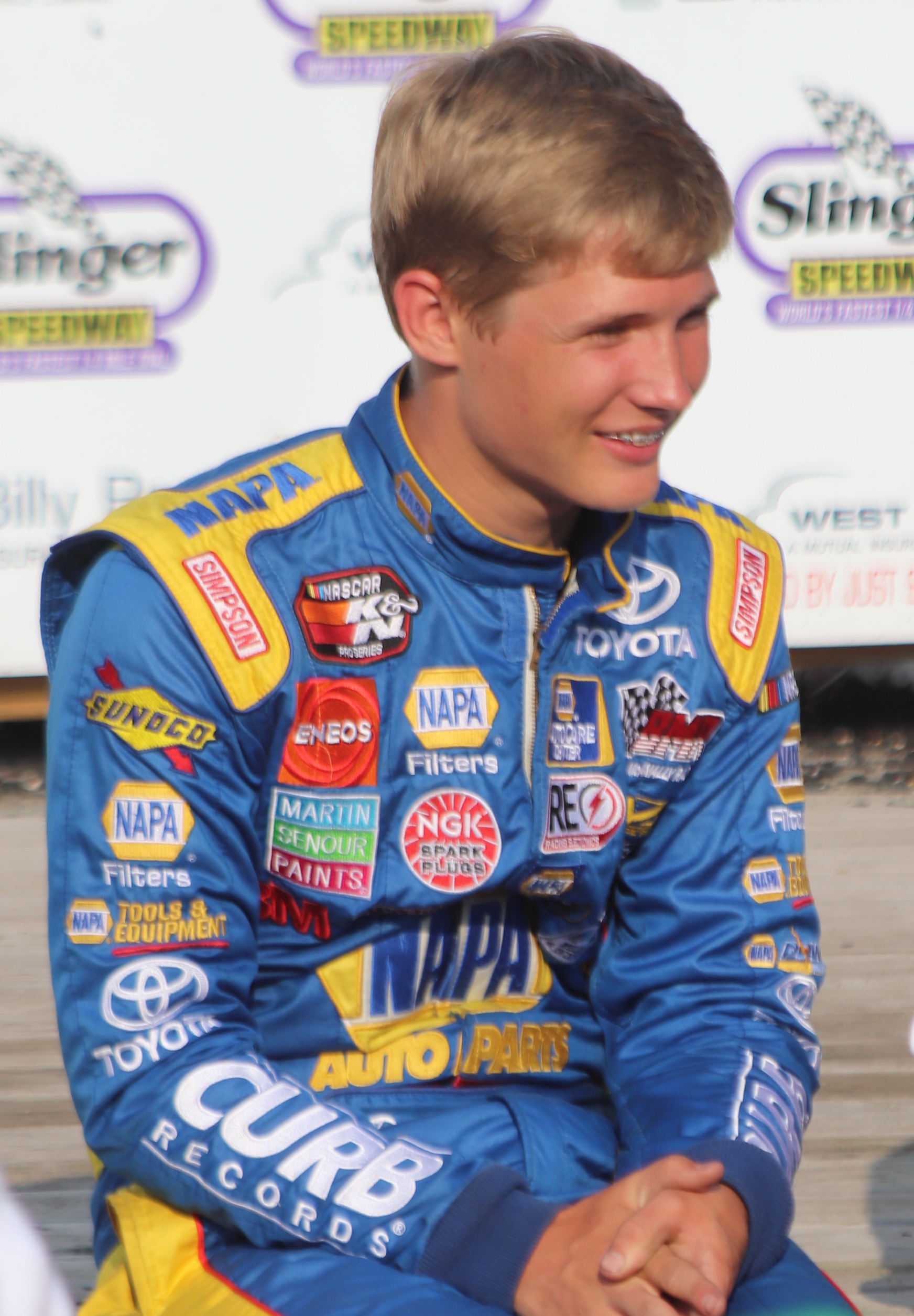 Derek Kraus at the 2019 Slinger Nationals.